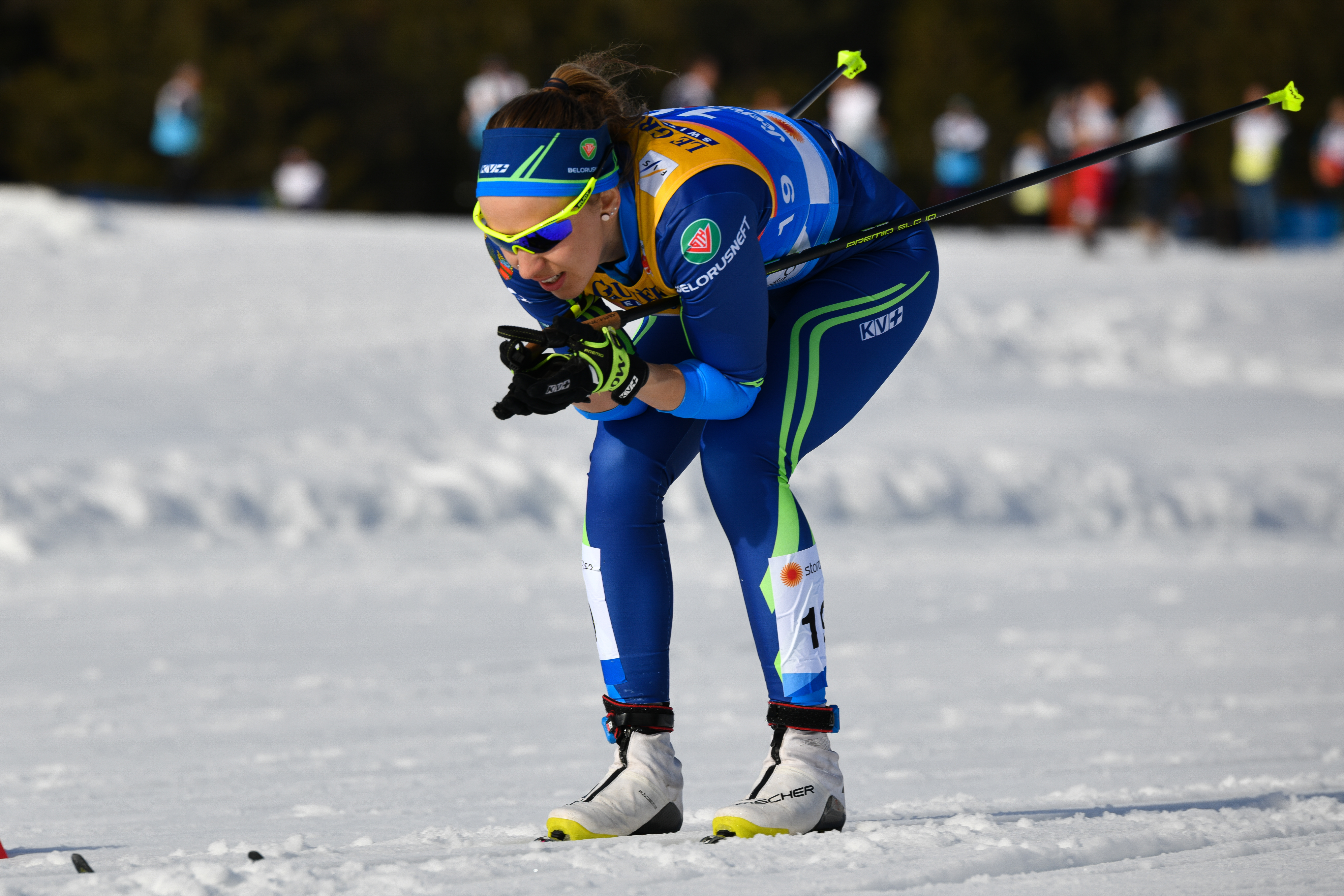 FIS Nordic Wolrd Ski Championships Seefeld 2019 - Ladies Cross Country 10km. Picture shows Polina Seronosova (BLR).